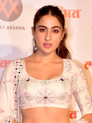 Sara Ali Khan graces Lokmat Most Stylish Awards 2018